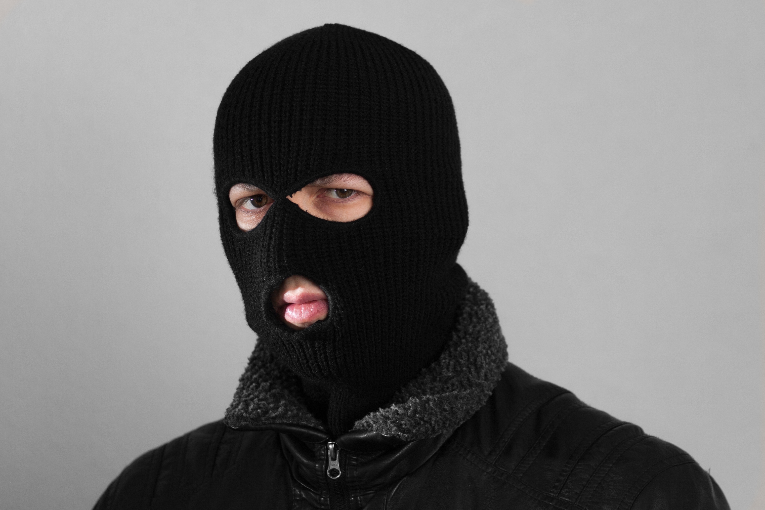 Main item of this photograph is a industrial/large scale manufactured rib knit balaclava with 3 holes. It allows to protect the face against cold air or hinder recognition of the face. This is the only intended way to wear it besides the "cap" variation. Other items are a leather jacket with a detachable fake fur collar and a 34 year old male. Focus and main light (electronic flash with 16° grid) is intentional on eyes and mouth and not all the way trough. Basically on what's left of the personality